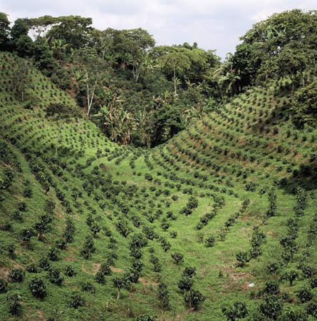 Coffee Plantation